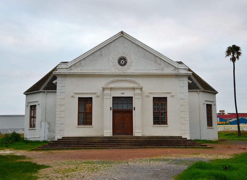 The old Dutch Reformed Church in Somerset West is situated between Church and Victoria Streets, not far from the main street. The congregation of Hottentots Holland was established in 1819, three years before the town of Somerset West came into being.